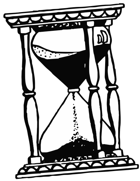 Cropped from image at (wayback